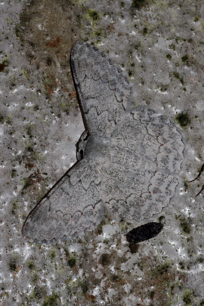 Malaysia, Fraser's Hill. March, 2009